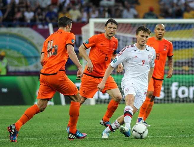 UEFA Euro 2012 match between Netherlands and Denmark that took place in Kharkiv. Final result was 0:1 (Krohn-Delhi)